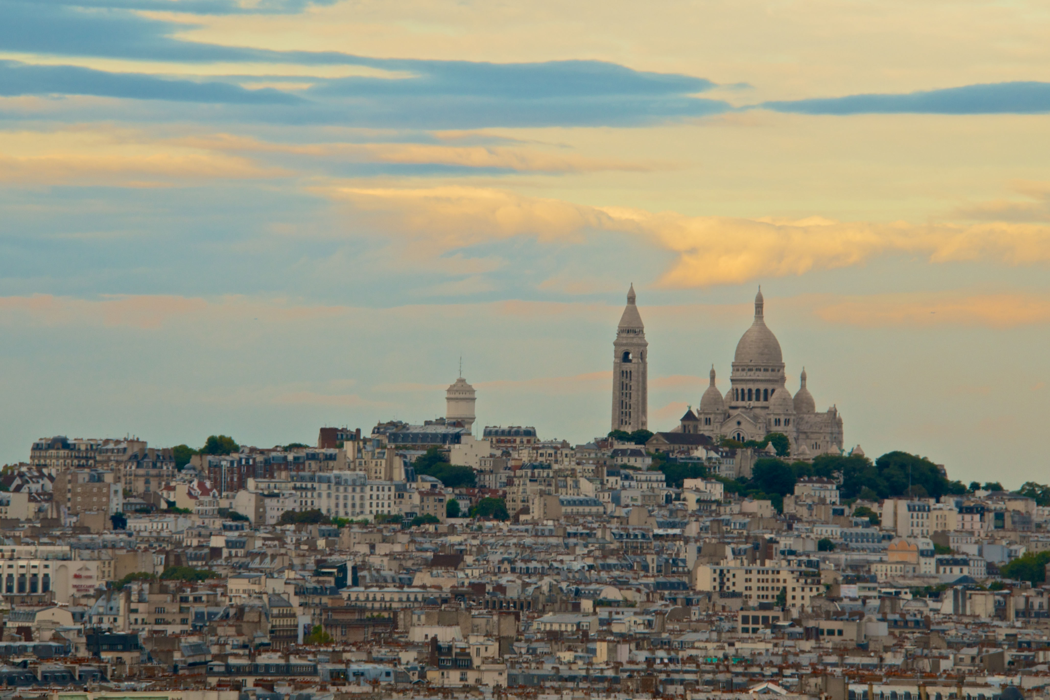 Sacre Coeur seen from the top of Arc de Triomphe in Paris